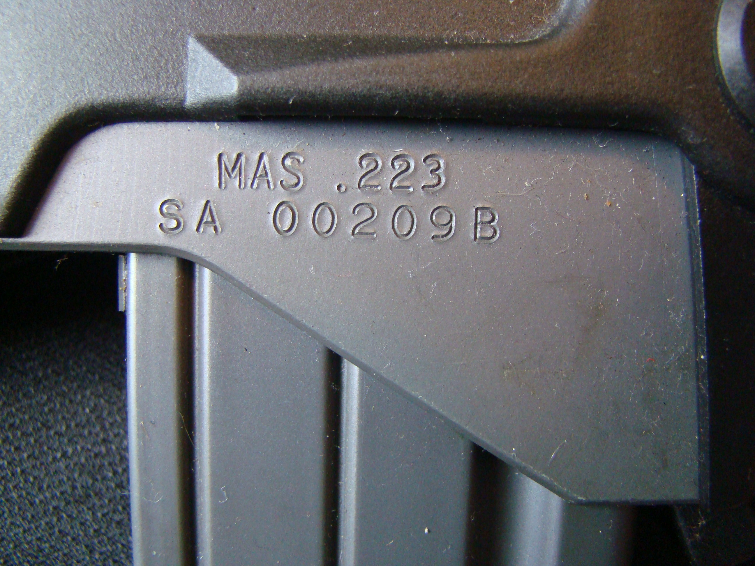 Century Arms MAS .223 (FAMAS) right side receiver markings